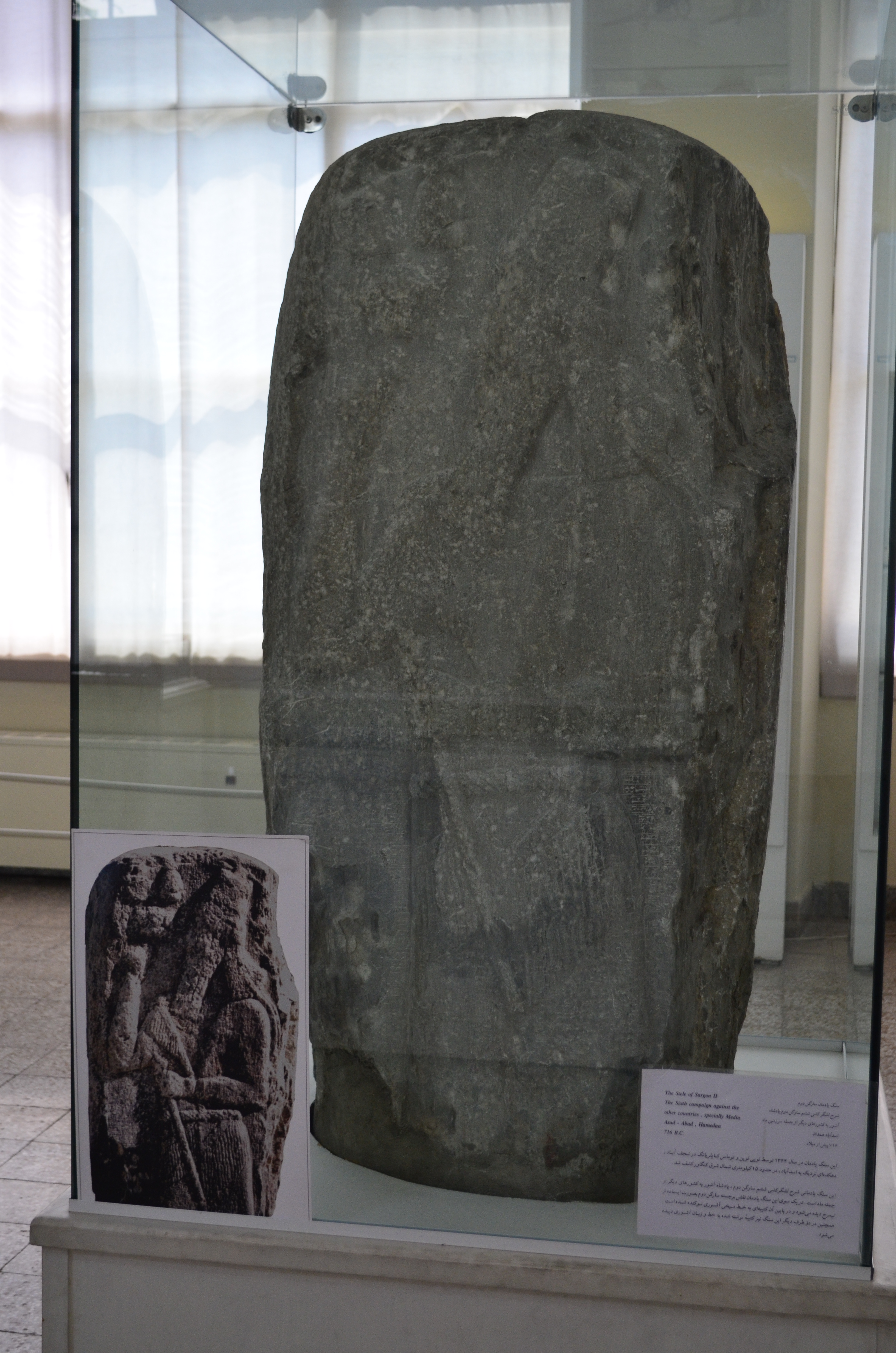 Stele of assyrian king Sargon II with cuneiform inscription. Asad Abad, Hamadan, 716 BC. H 145 x W 68 cm. National Museum of Iran National Museum of Iran Native name